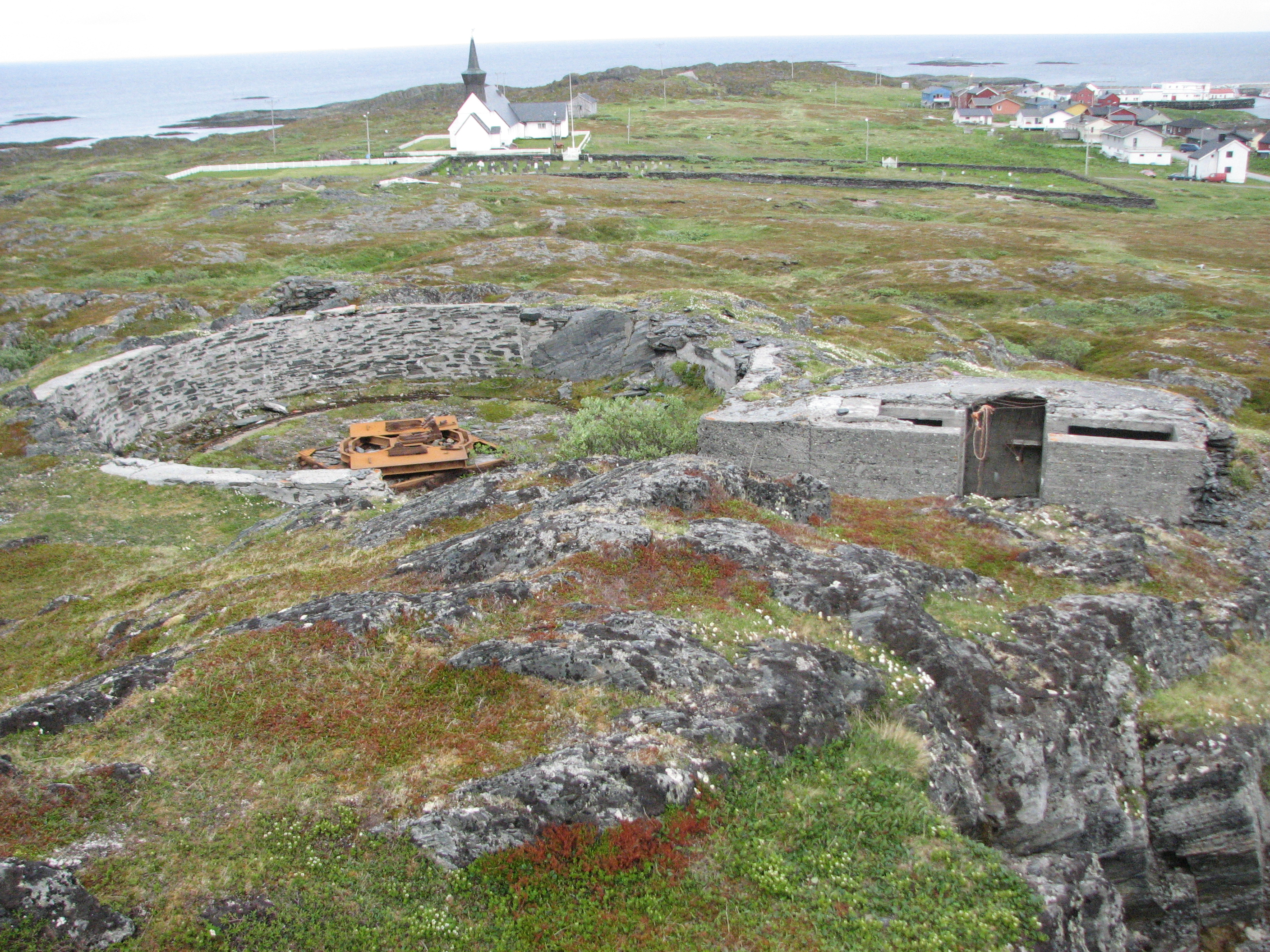 Gamvik, Norway Germans defensive structure from World War II on the Varen upland